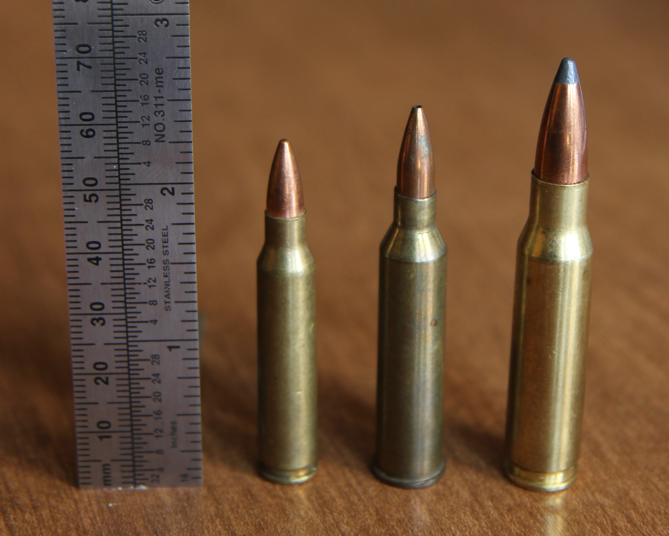 A .225 Winchester cartridge next to a metric/imperial ruler with .223 Remington and .308 Winchester cartridges for comparison.